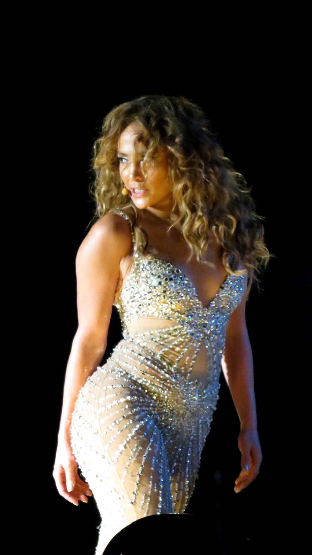 Jennifer Lopez live at the Pop Music Festival in São Paulo, Brazil.